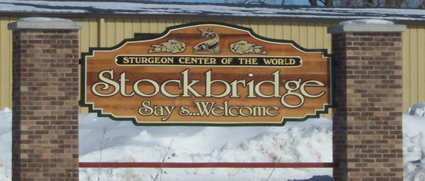 The welcome sign for Stockbridge, Wisconsin, USA. This sign was constructed in 2007 to replace Image:StockbridgeWisconsinWelcomeSign.jpg.